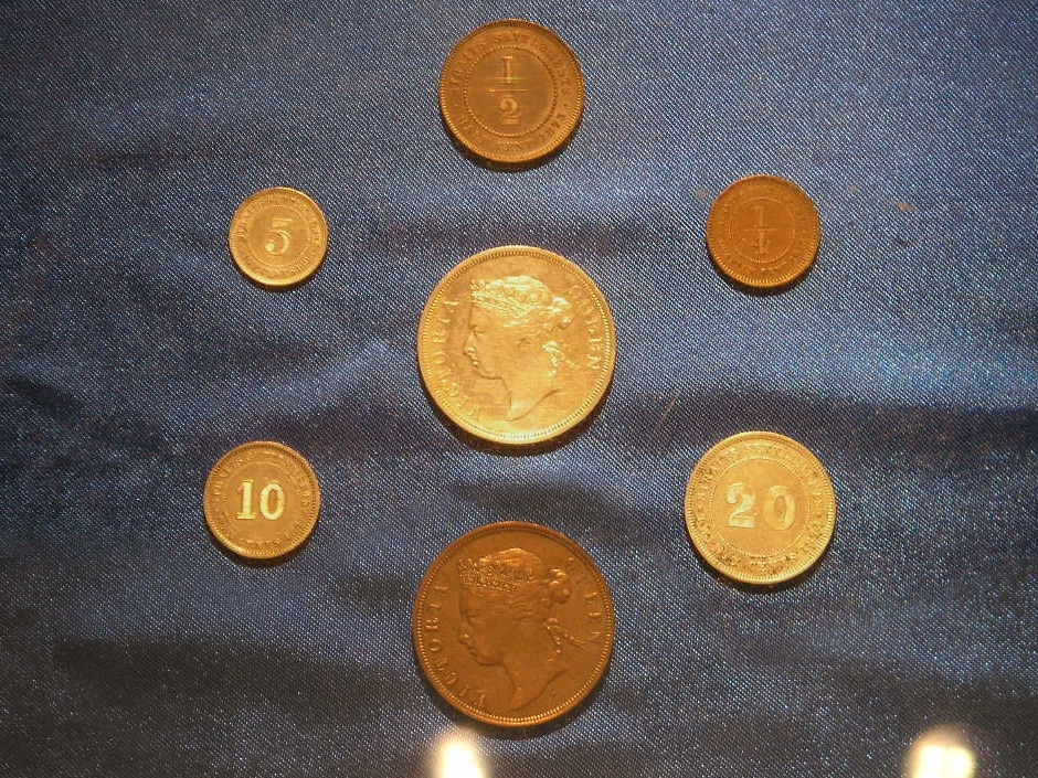 Straits Settlement coins from the reign of Queen Victoria.